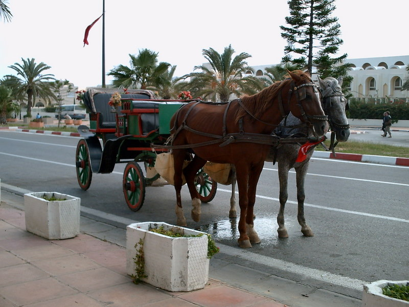 Carriage in Hammamet-South, Tunisia